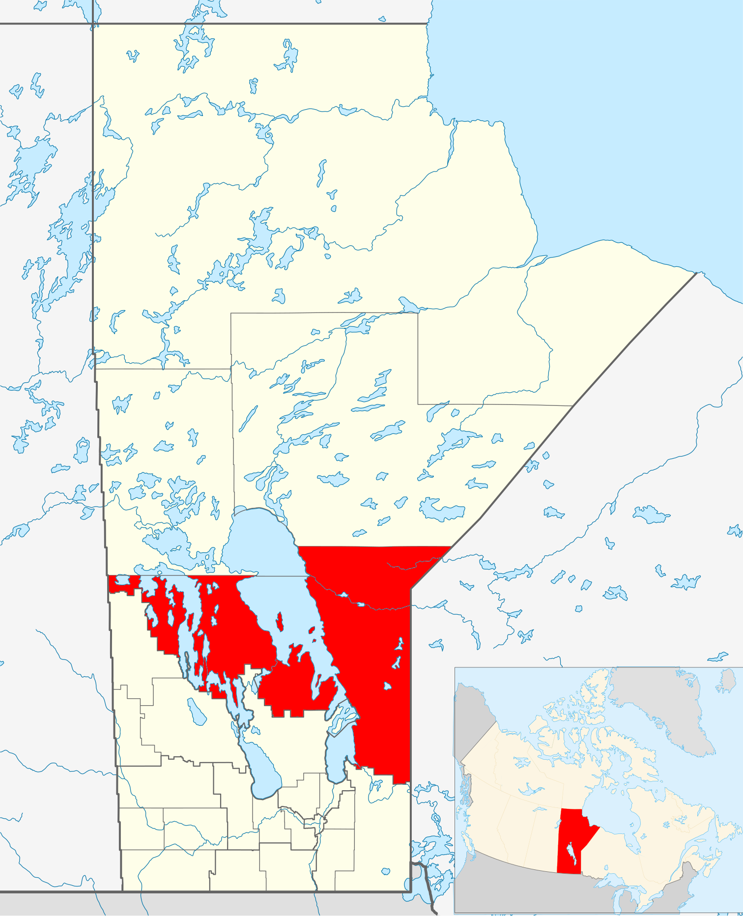 Division No. 19, Manitoba.